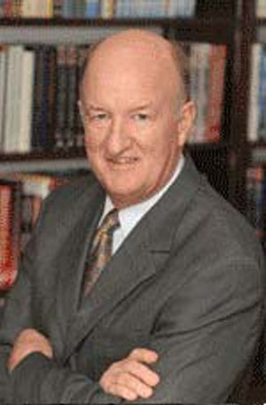 This is a photo of Mark Skousen. This photo to permitted for free use in the public domain and for posting on the Mark Skousen article on Wikipedia.